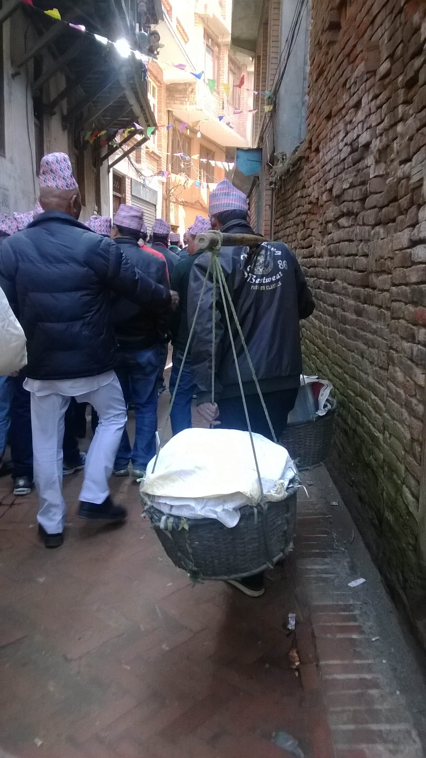 Celebration of Janko and Upanayana by Newa people in Lalitpur.